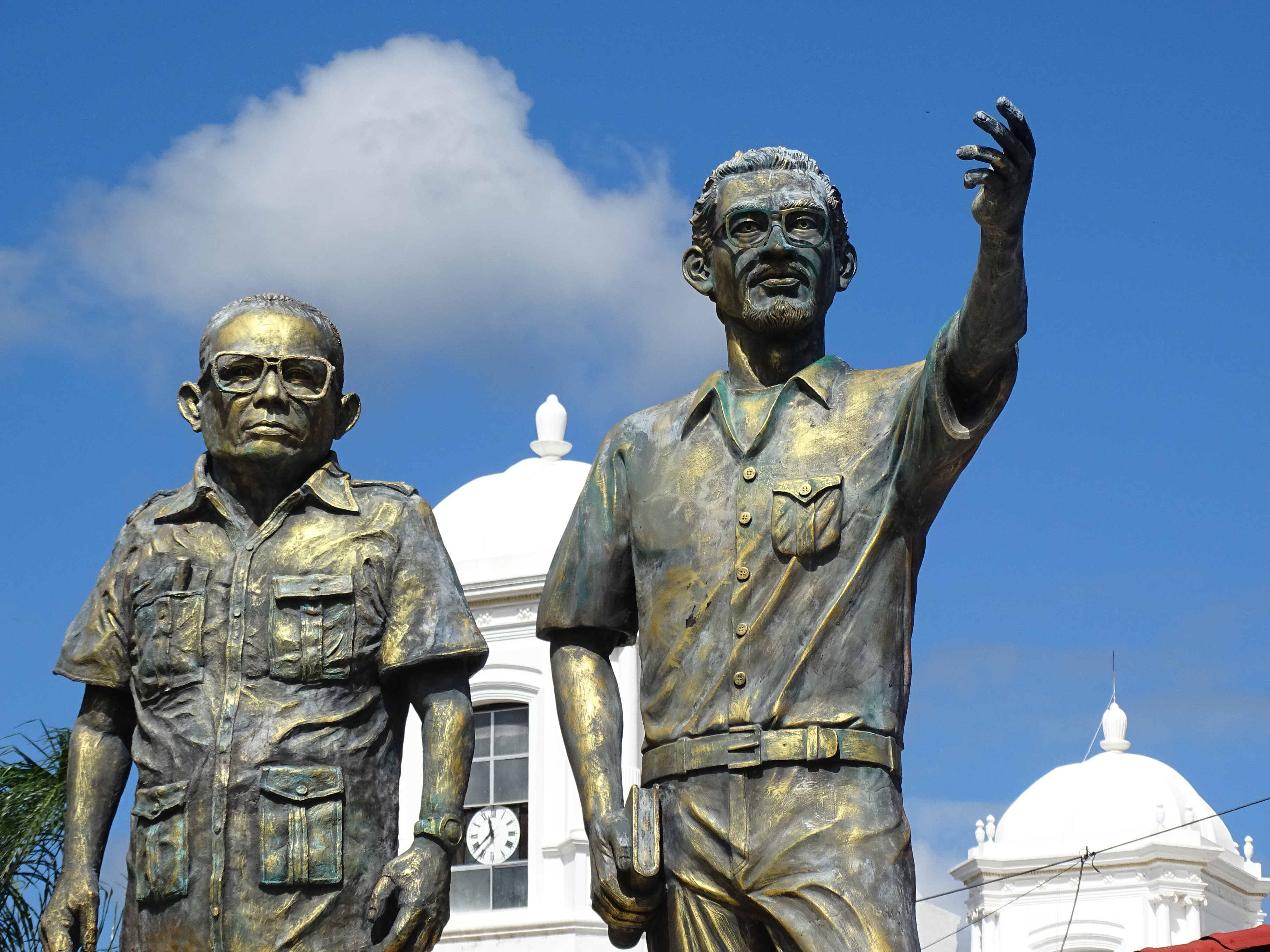 Sculptures of FSLN Founders Tomas Borge and Carlos Fonseca - Matagalpa - Nicaragua